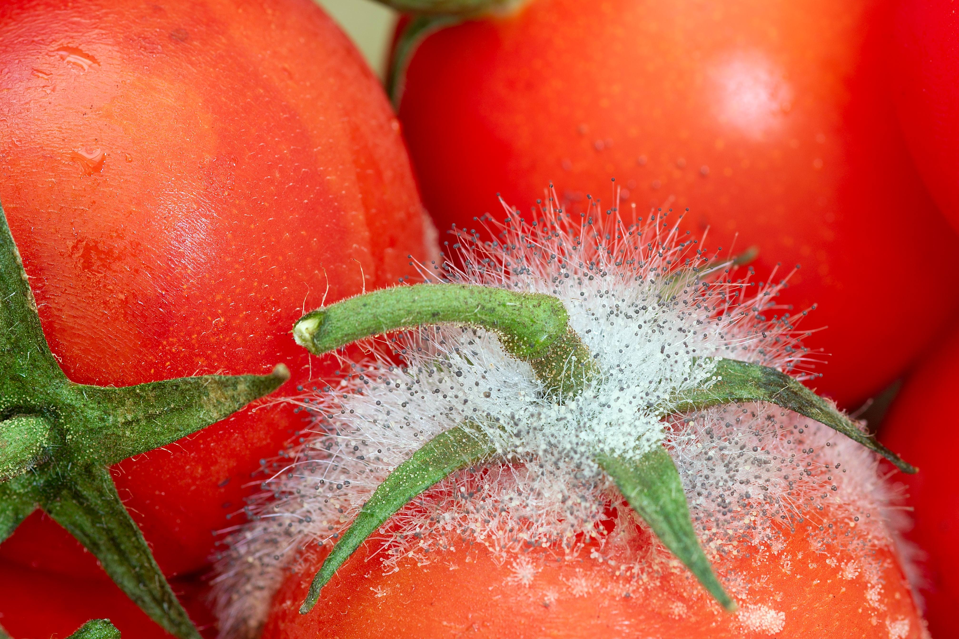 Mold (probably Rhizopus stolonifer, see [2]) on ripe tomatoes